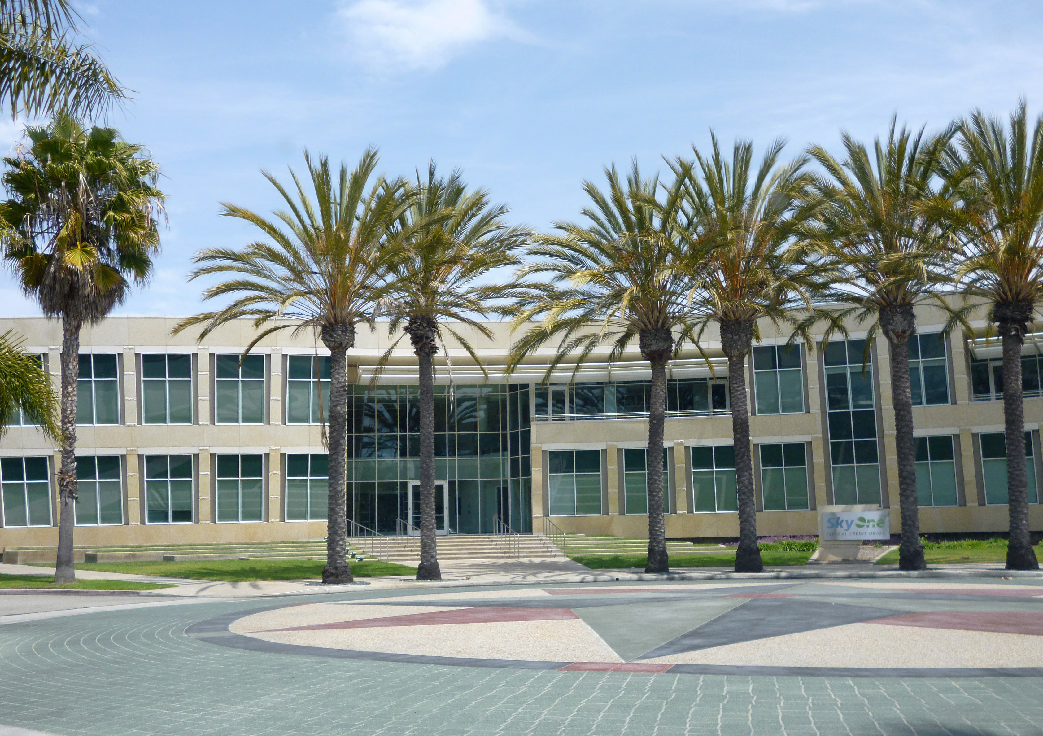 SkyOne Federal Credit Union in Hawthorne, California, as photographed by user Coolcaesar on April 7, 2013. This building was used as the exterior of the police station on the television show CSI: Miami.